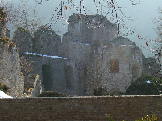 Ruins of Castle of Morimont (Chateau du Morimont, Burg Moersberg), Alsace, France